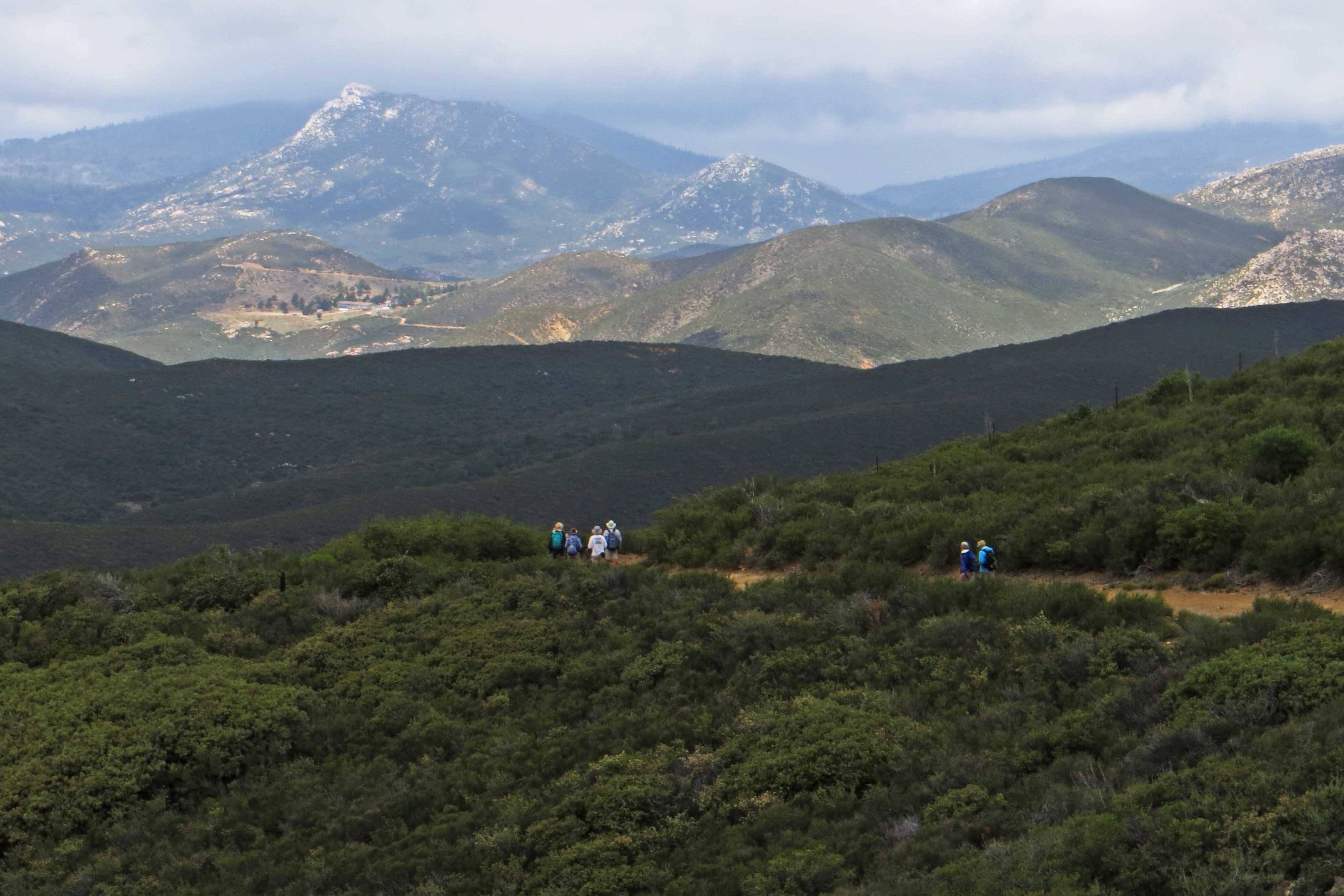 The Cuyamaca Mountains in the clouds, and Stonewall Peak — seen from the Laguna Mountains in ther foreground. Located in San Diego County, California.